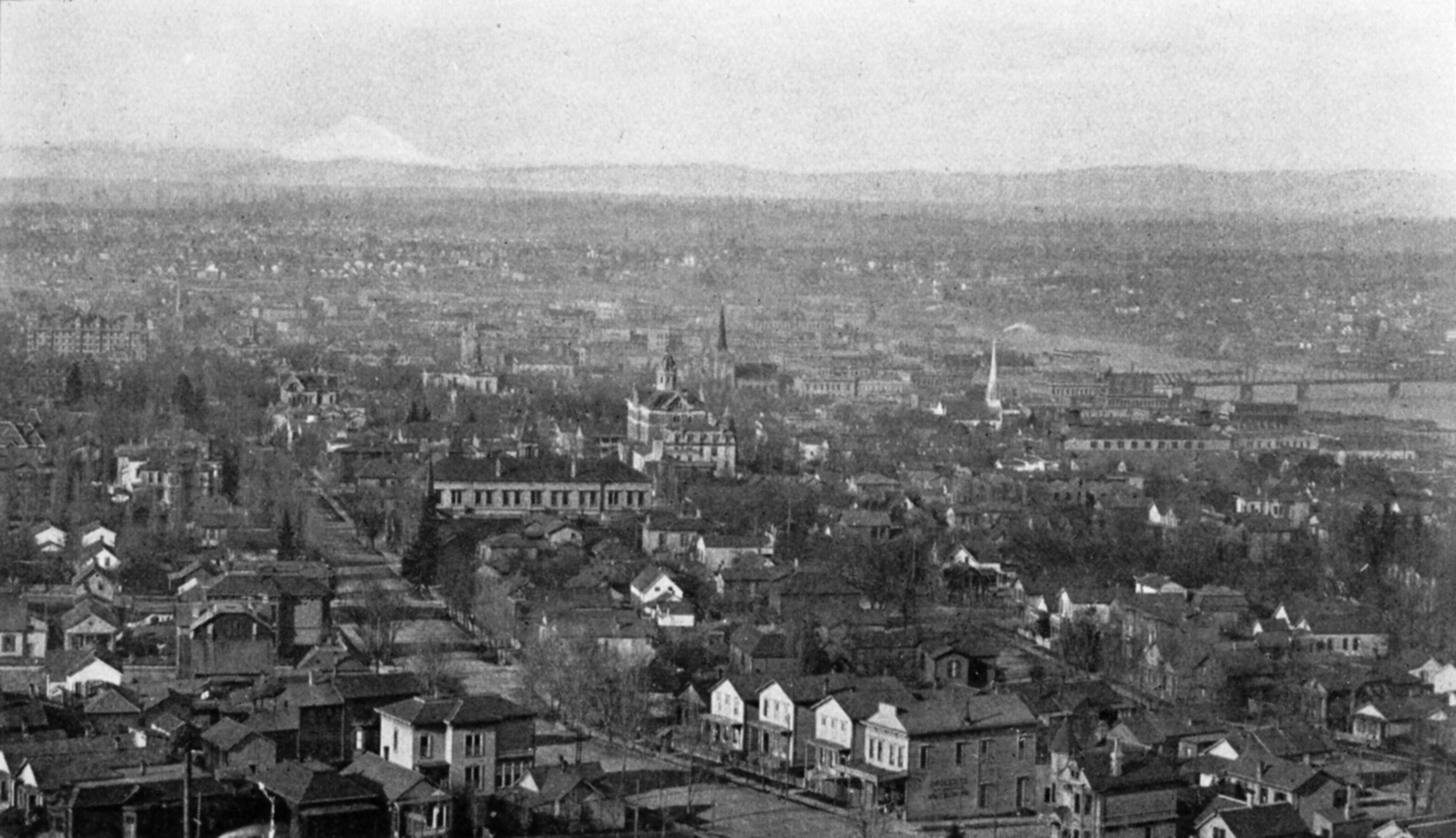 Portland, Oregon c. 1890. This view is looking approximately northeastwards from South Portland. Mount St. Helens is in the distance. At center right, the Willamette River can be seen, and the bridge pictured here is the first Morrison Street Bridge (completed in 1887), the first Willamette River bridge in Portland.